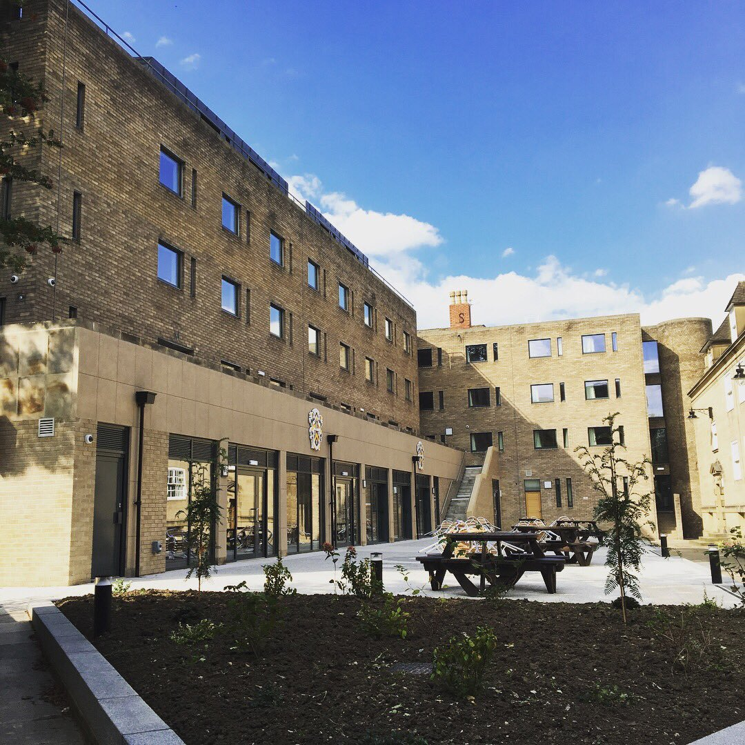 View of the jevons building at hatfield college, durham